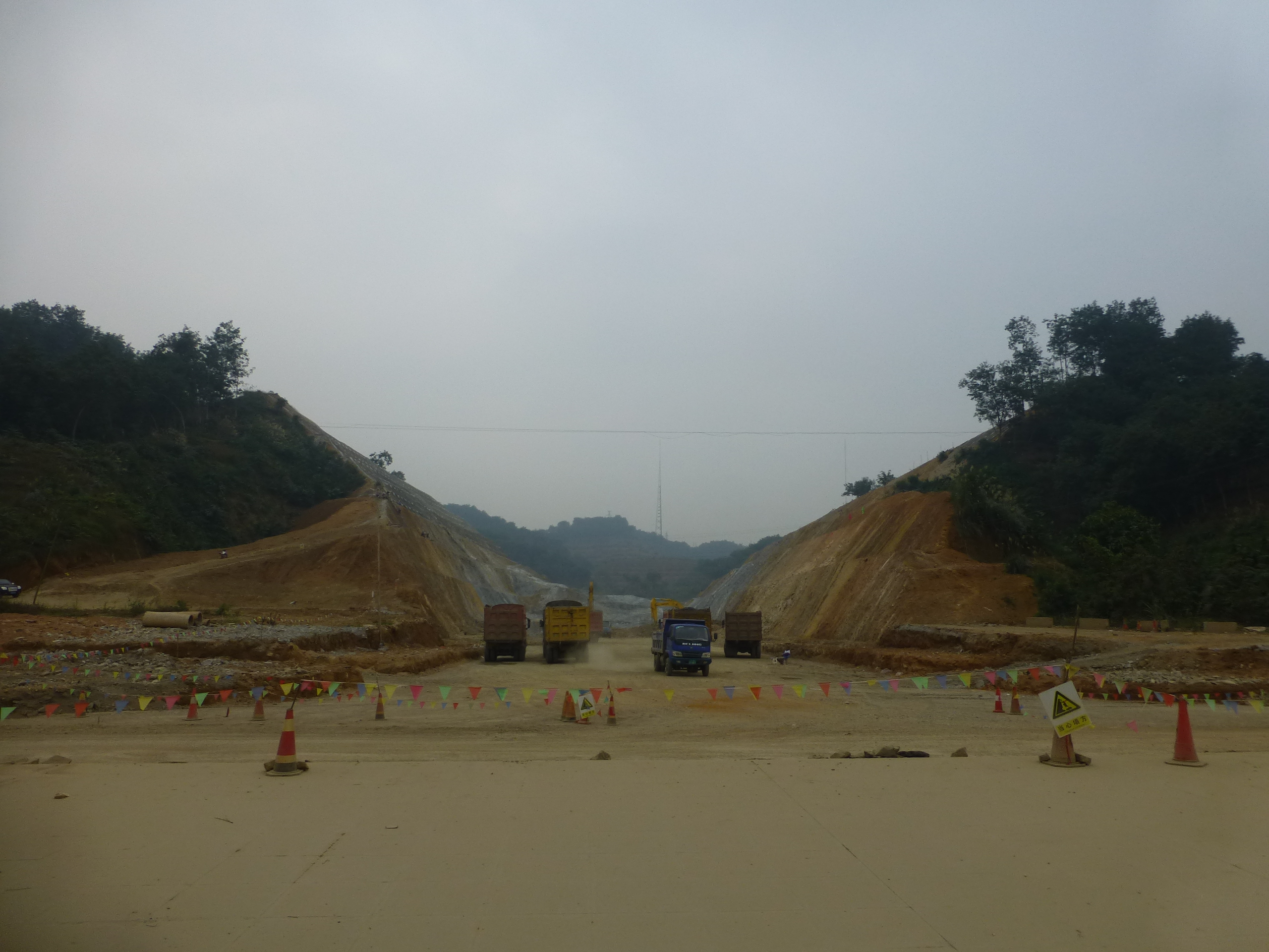 The new road, under construction, to link the new Hekou North (Hekoubei) Railway Station with Hekou Town